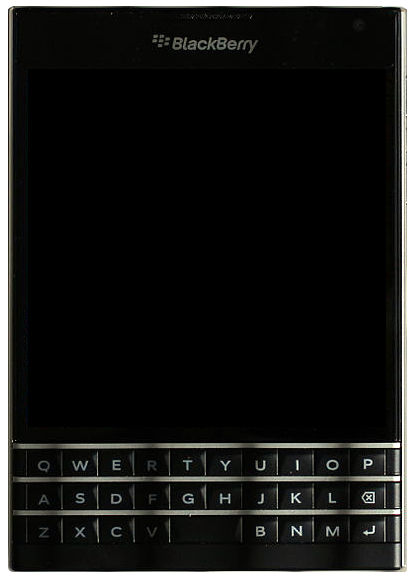 BlackBerry Passport extracted from photo